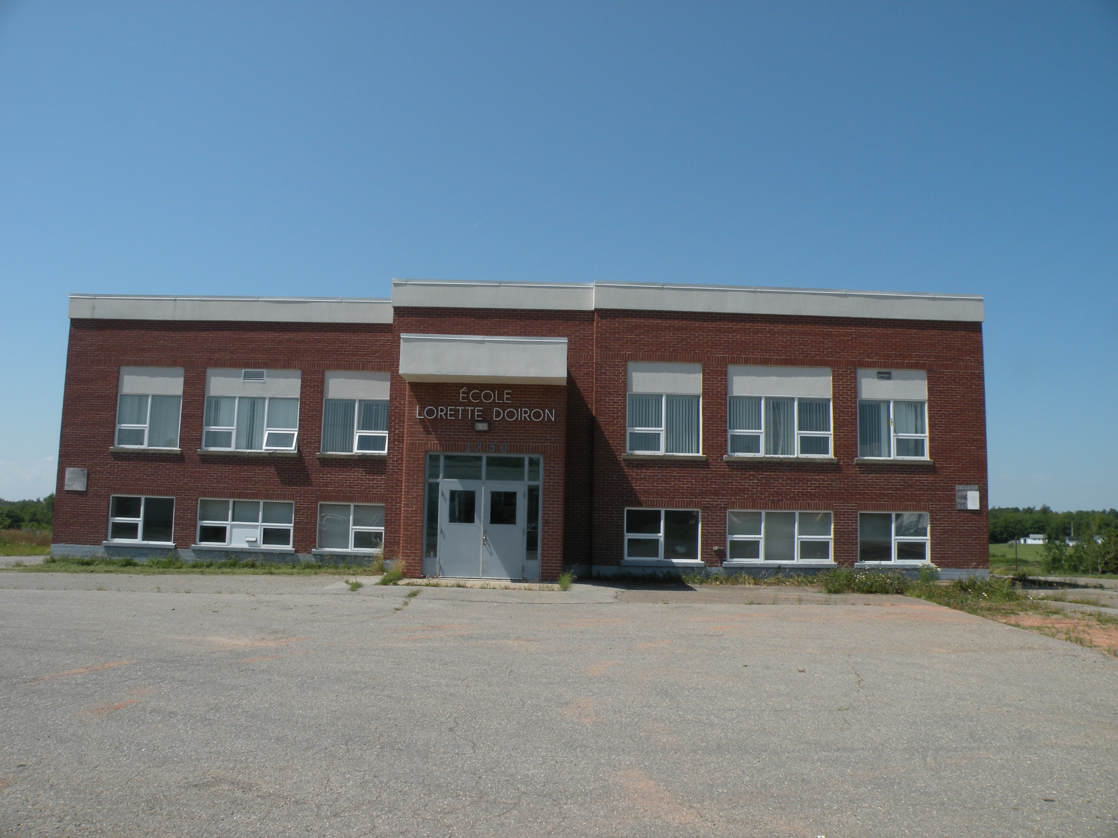 Saint-Simon, New Brunswick, Canada.